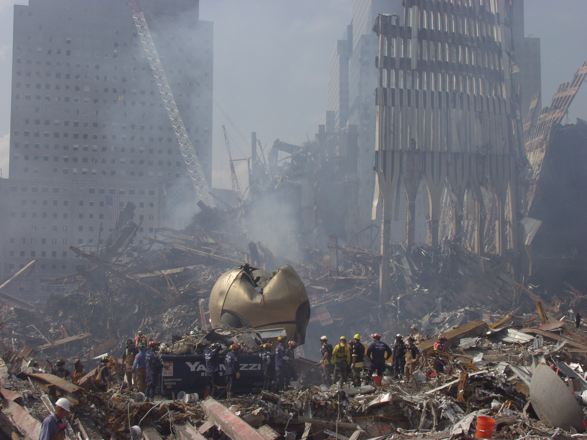 New York, NY, September 21, 2001 -- Rescue crews work to clear debris from the site of the World Trade Center. Photo by Michael Rieger/ FEMA News Poto